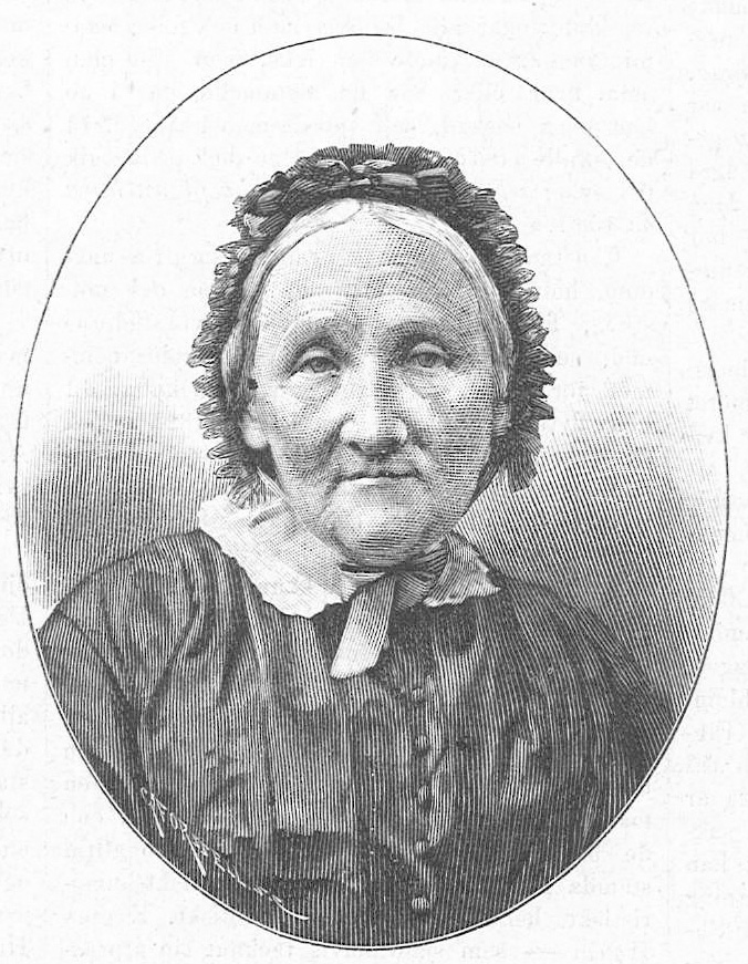 Constance Hultin (1803-1883)